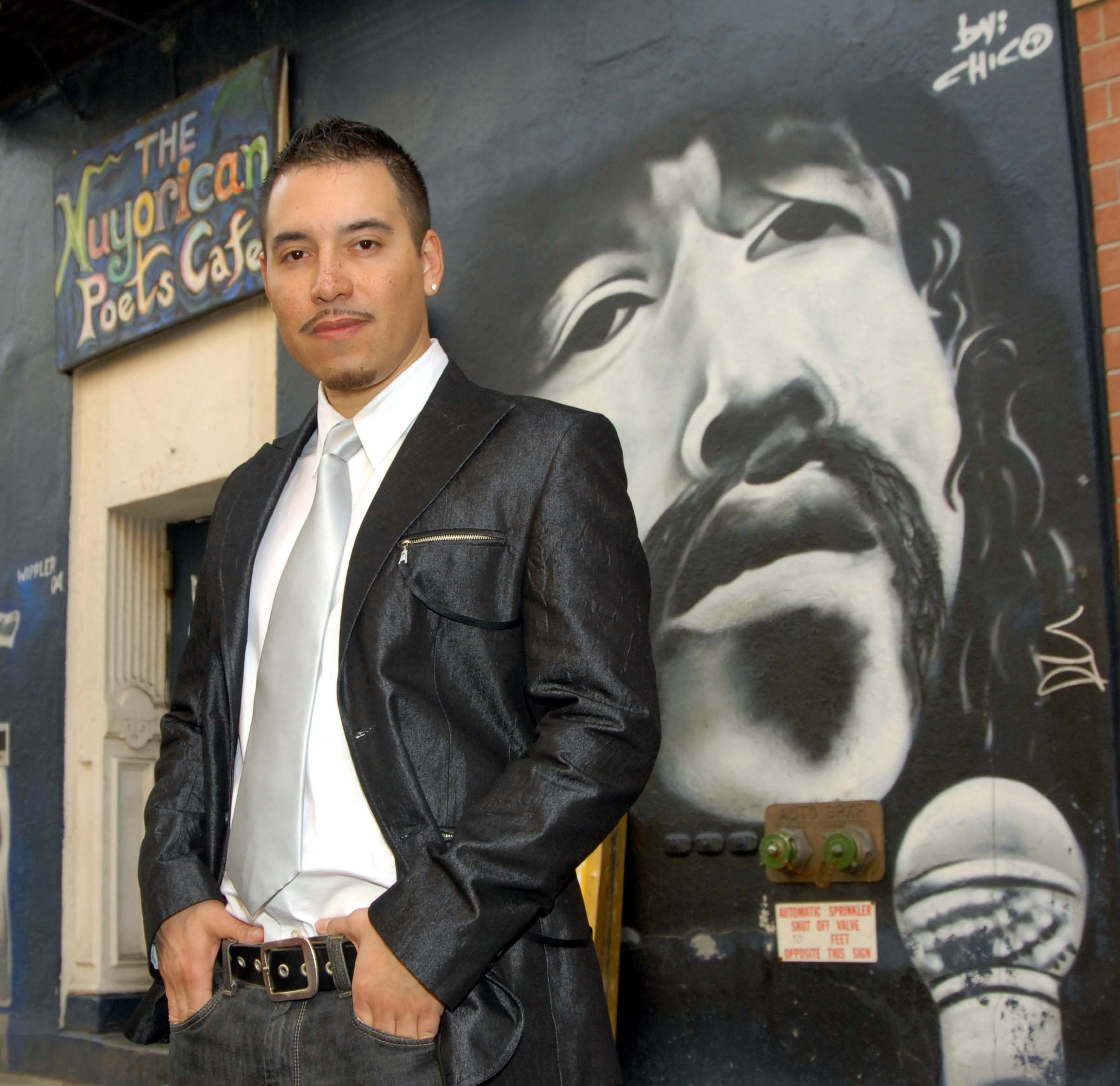 Emanuel Xavier Photograph by Derek Storm